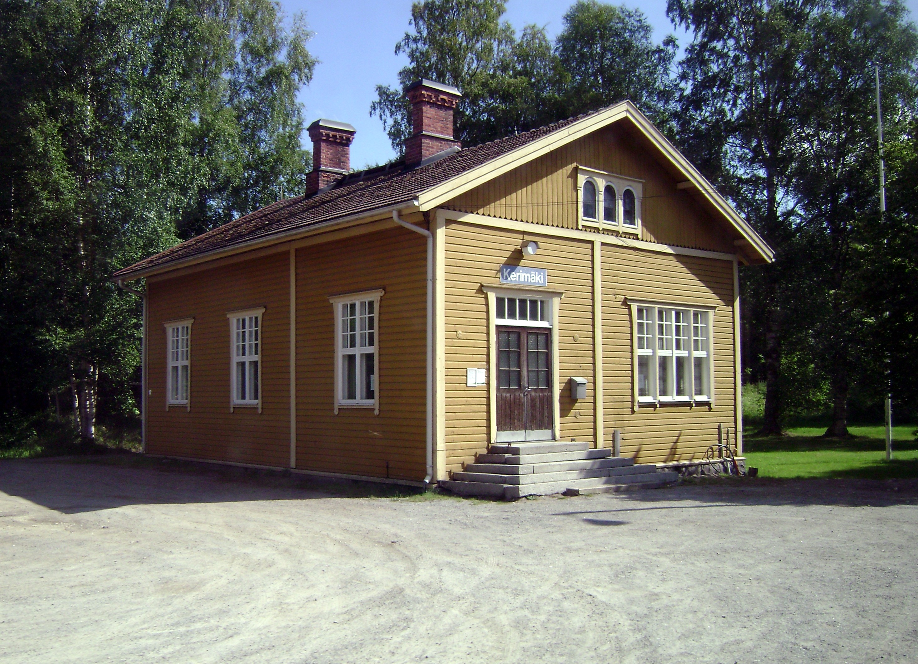 Kerimäki railway station